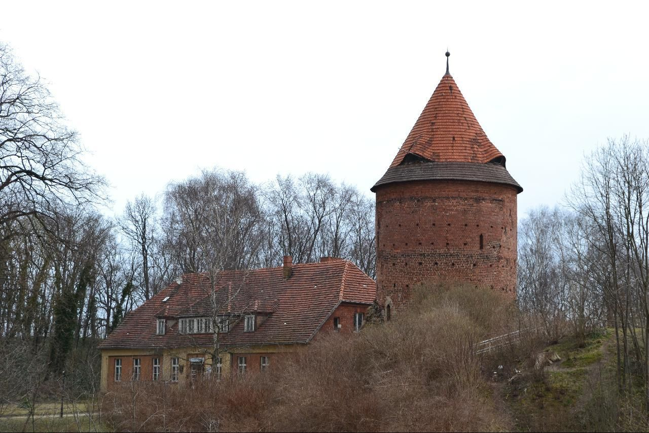 Tower of former castle in Plau am See in Mecklenburg-Western Pomerania, Germany